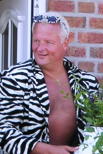 Willi Girmes